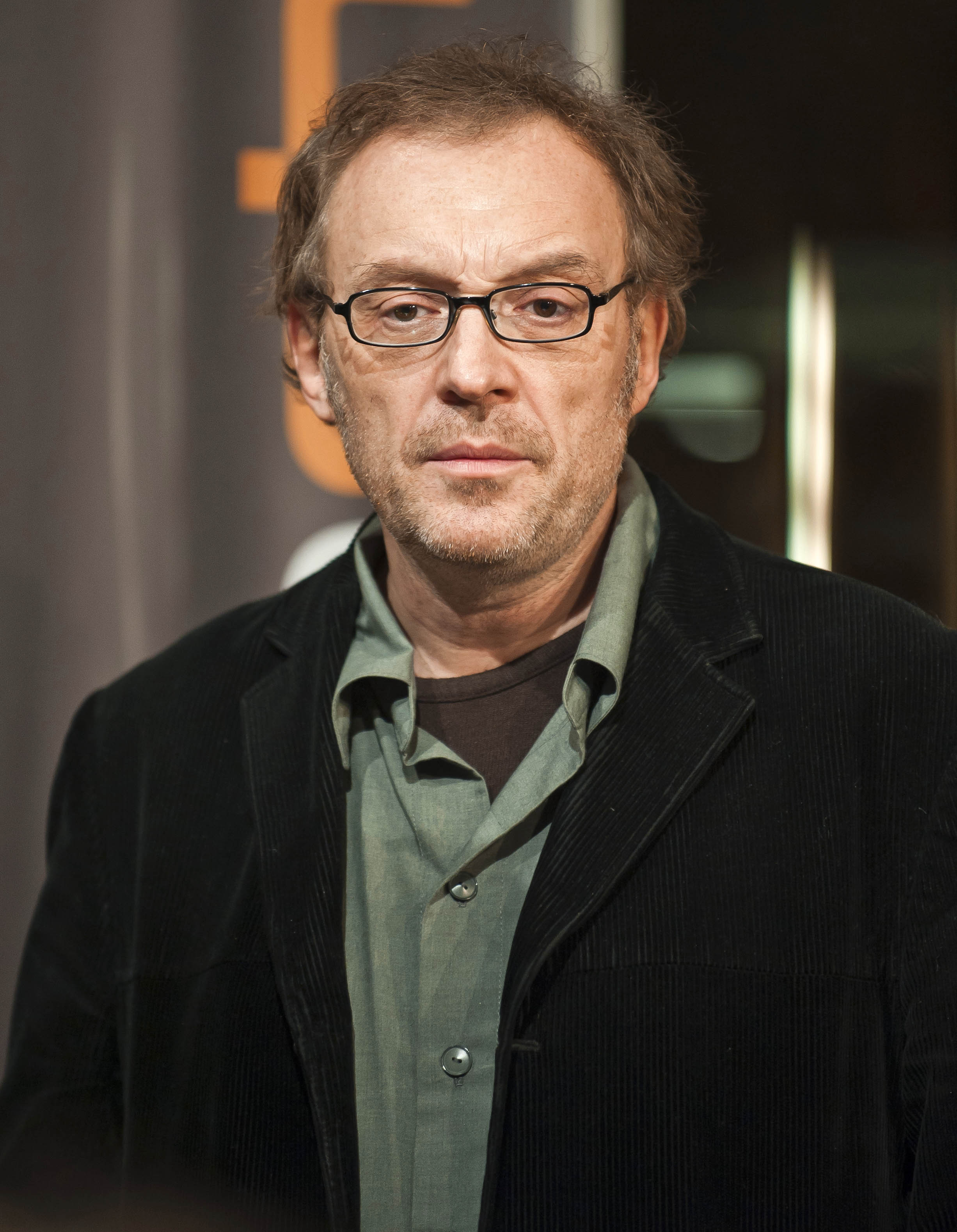 Austrian comedian and actor Josef Hader at the Berlin Film Festival 2009